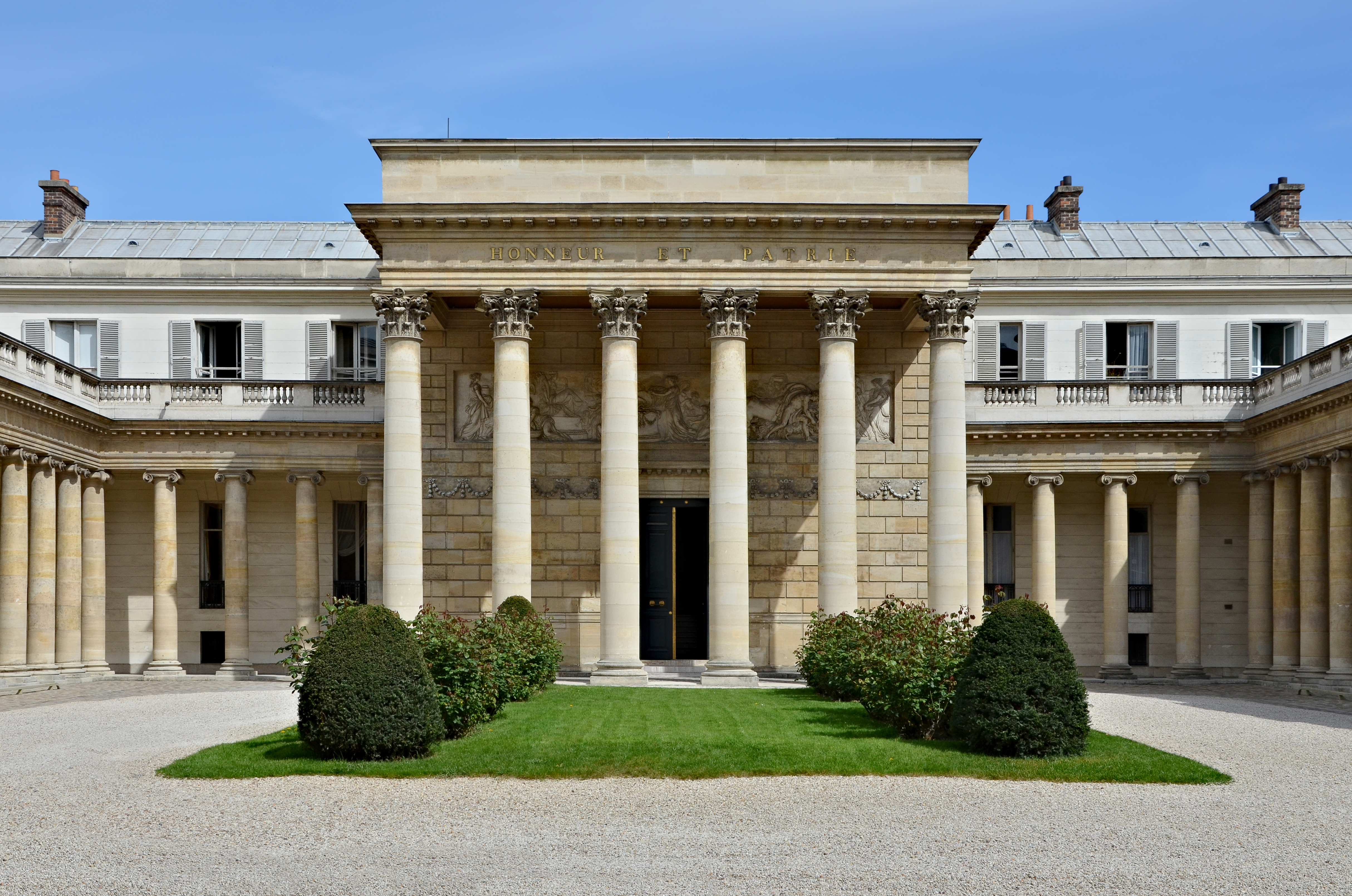 Palace of the Légion d'honneur, porch, Paris, 7e arr.